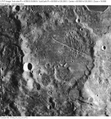 Darwin is the large crater in the center with a portion of Rimae Darwin passing over it. The northern part of Lamarck is visible at the bottom.